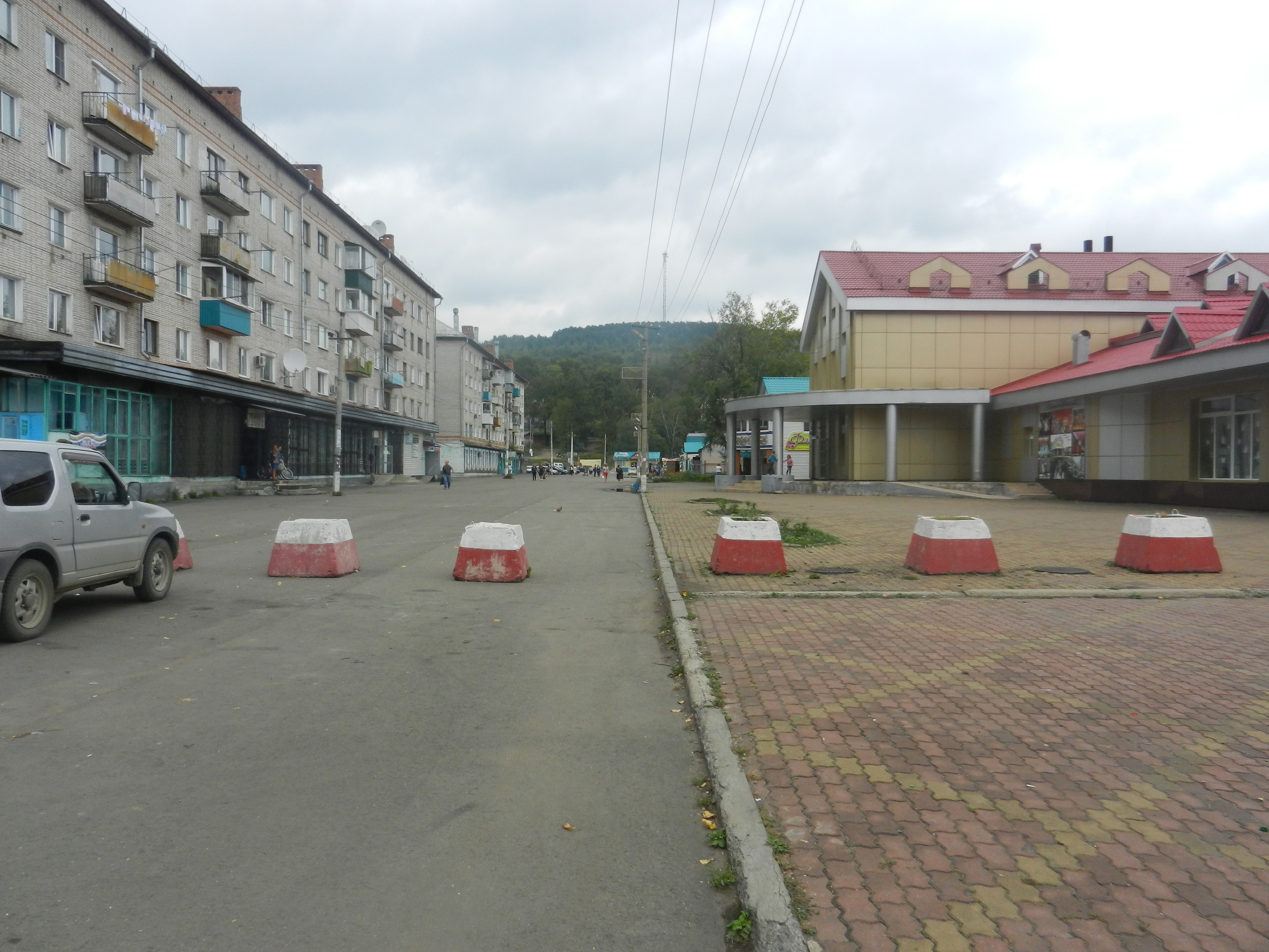 Obluch'e